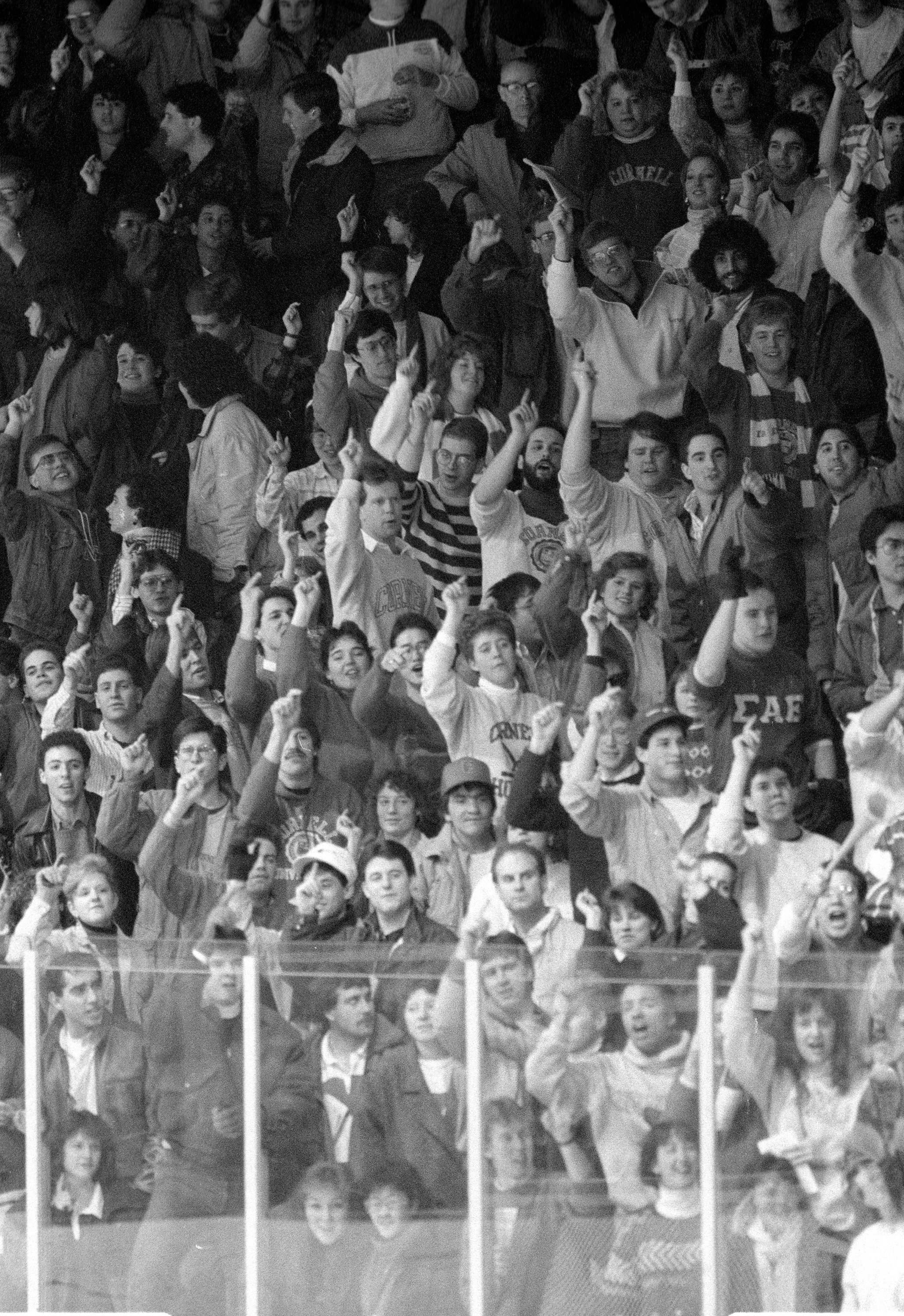 Cornell University ice hockey vs. Clarkson. Lynah Rink, Ithaca, NY. Likely Nov 21, 1987.